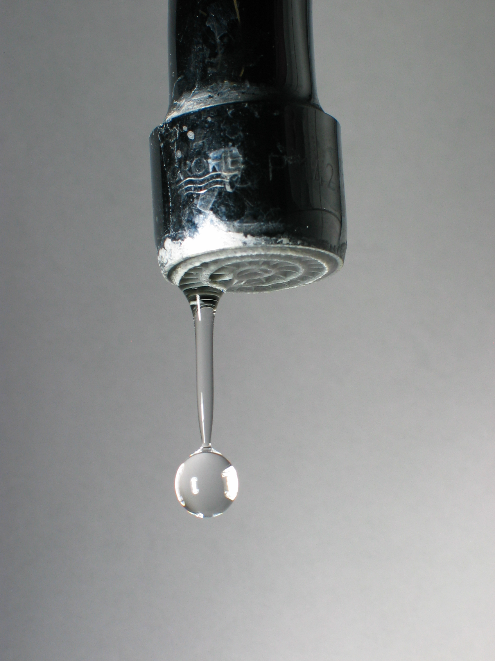 A drop detatching from a dripping faucet.